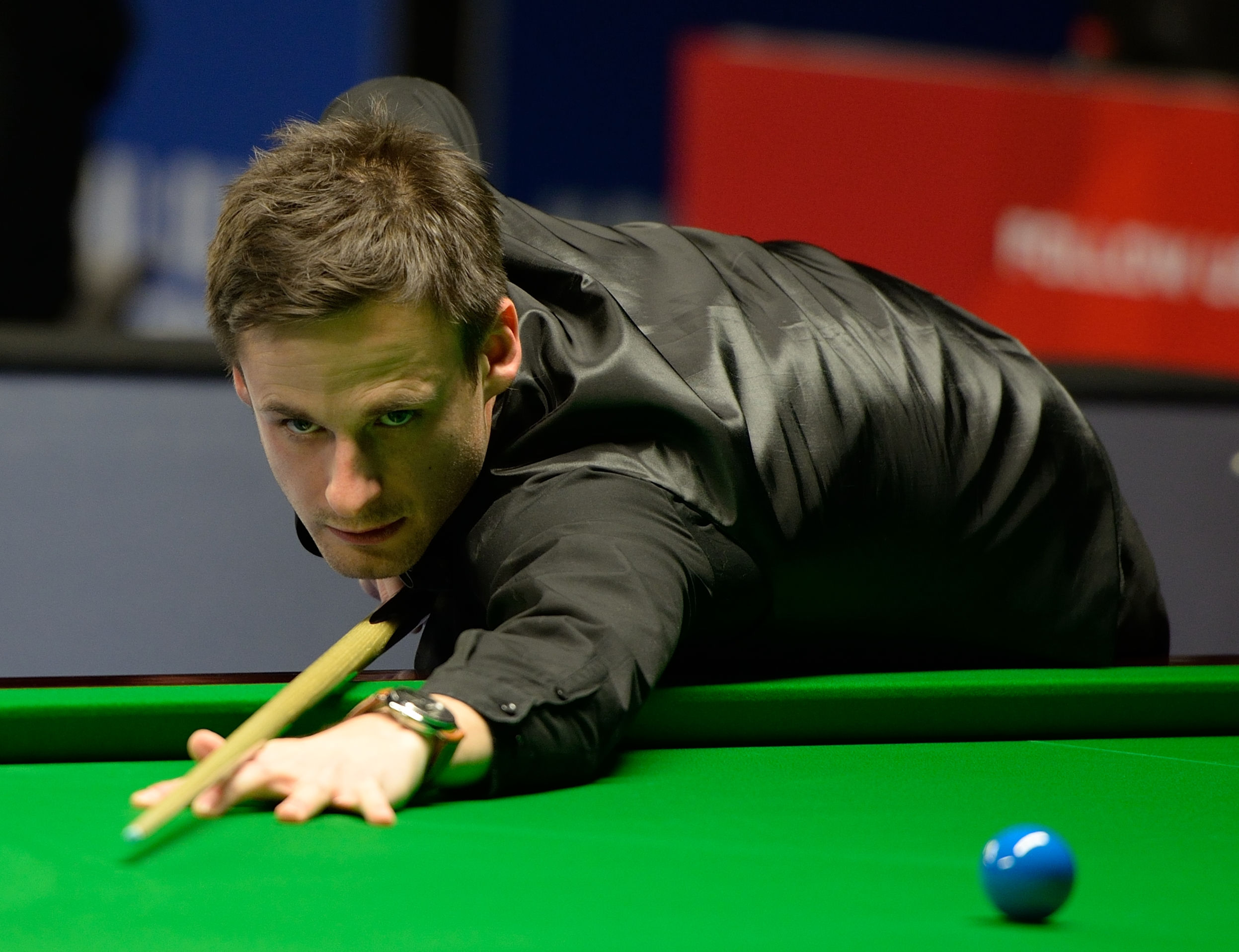 Picture taken in Berlin during the Snooker German Masters in 2015. David Gilbert.